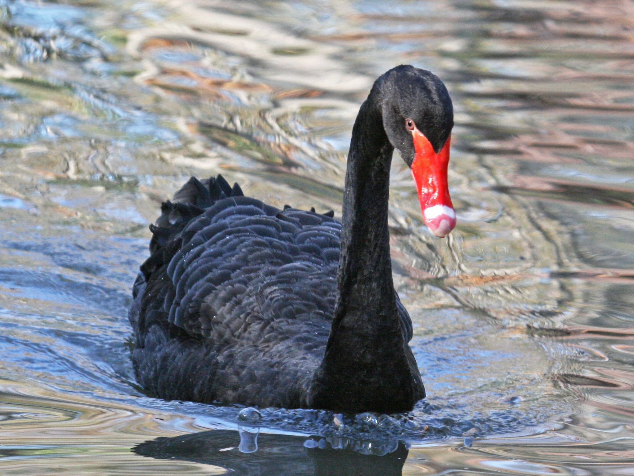 Black Swan (Cygnus atratus) at Sylvan Heights Waterfowl Park in Scotland Neck, North Carolina.